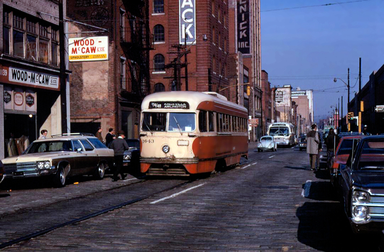 Scan of the photo that I've made myself in Pittsburgh in 1970-ties. PCC 1643, line 44/48.